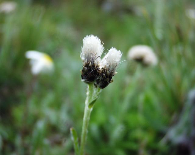 (en) Antennaria carpathica, a photography originating of the internet site The accord of the autor, H. Brisse, is here. (fr) Antennaria carpathica, une photographie issue du site internet L'accord de l'auteur, H. Brisse, se situe ici.